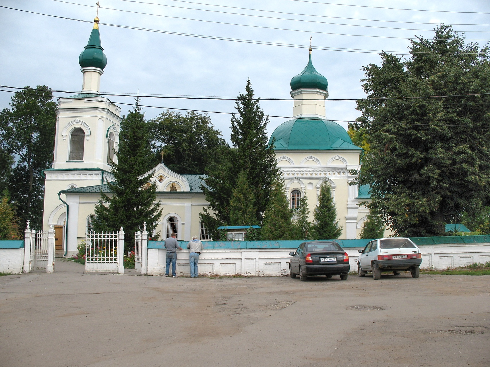 St. Nicholas Church in the village Koçak